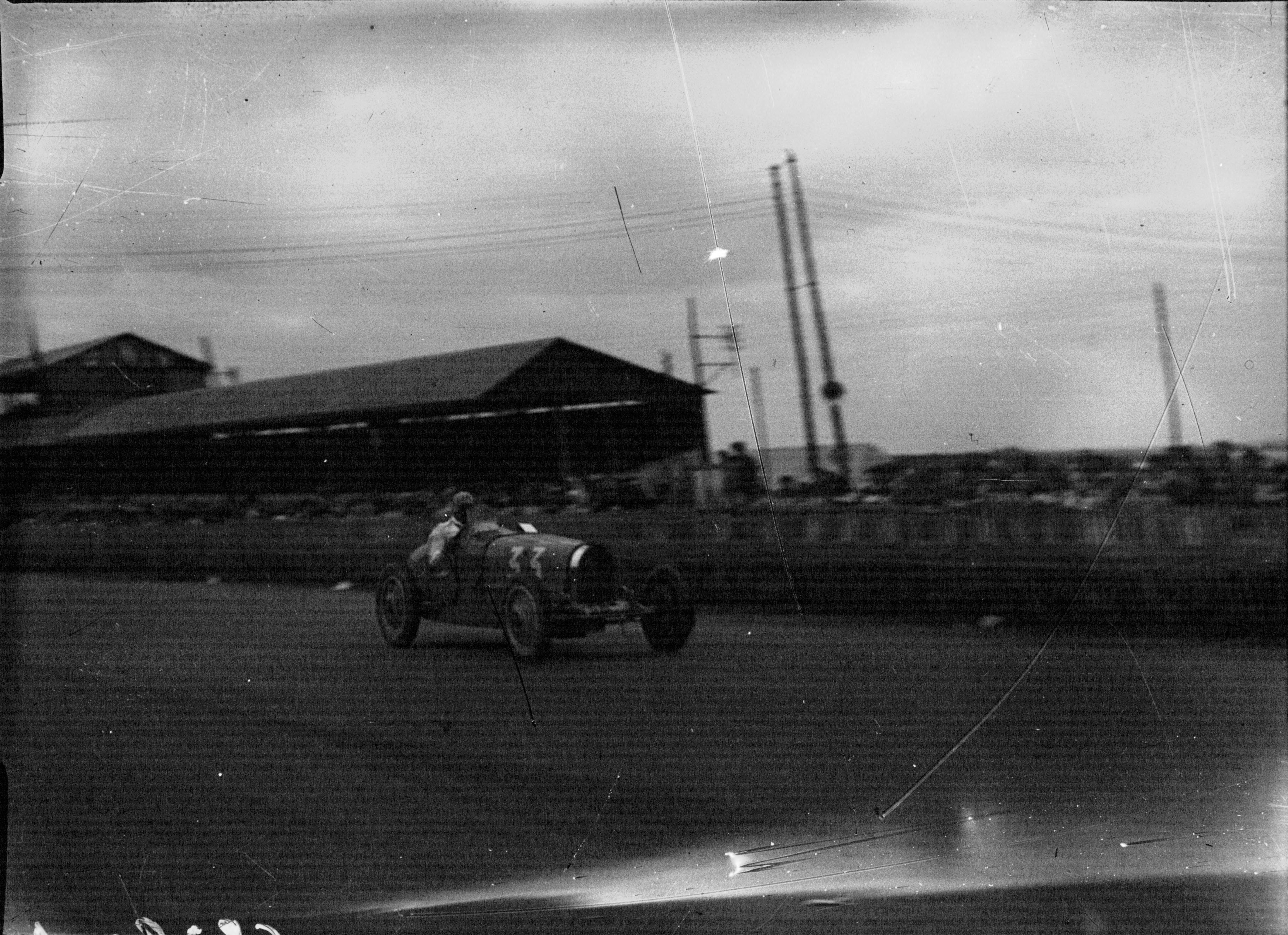 Juan Zanelli at the 1929 Bugatti Grand Prix